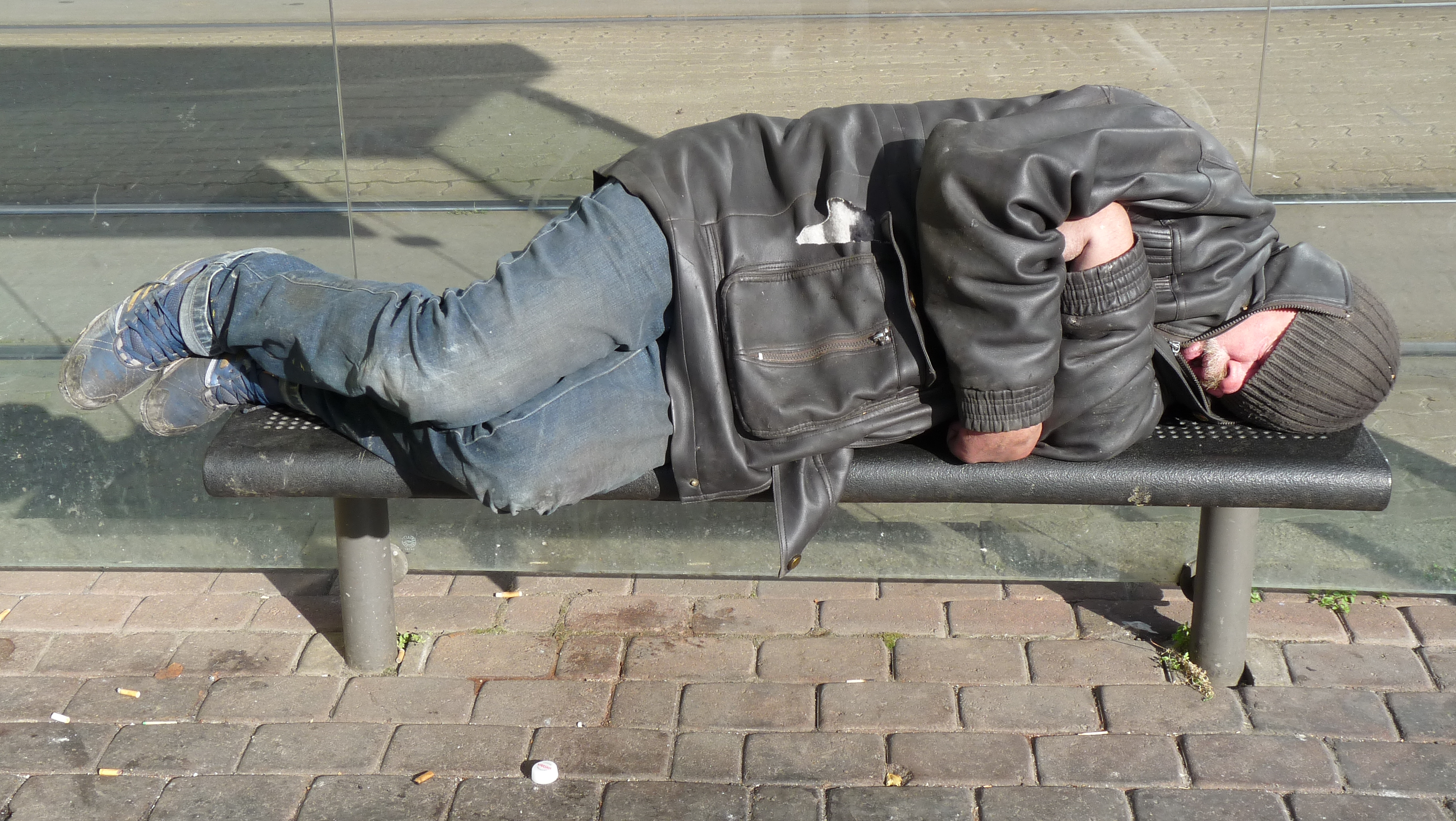 Homeless person is sleeping in Tallinn, Estonia